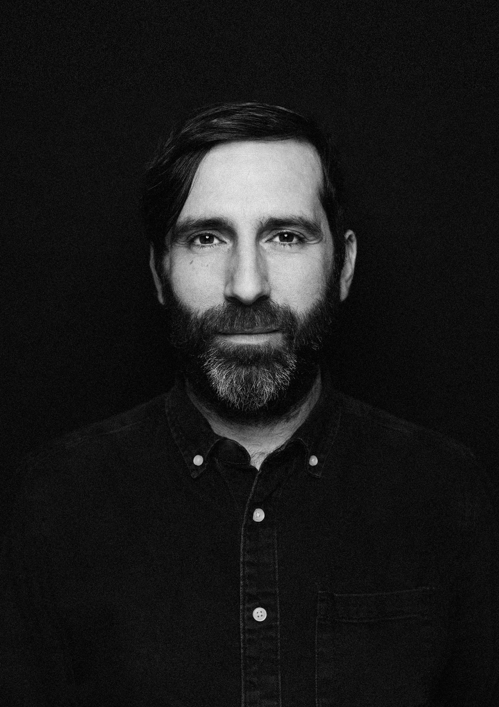 Film score composer Karwan Marouf